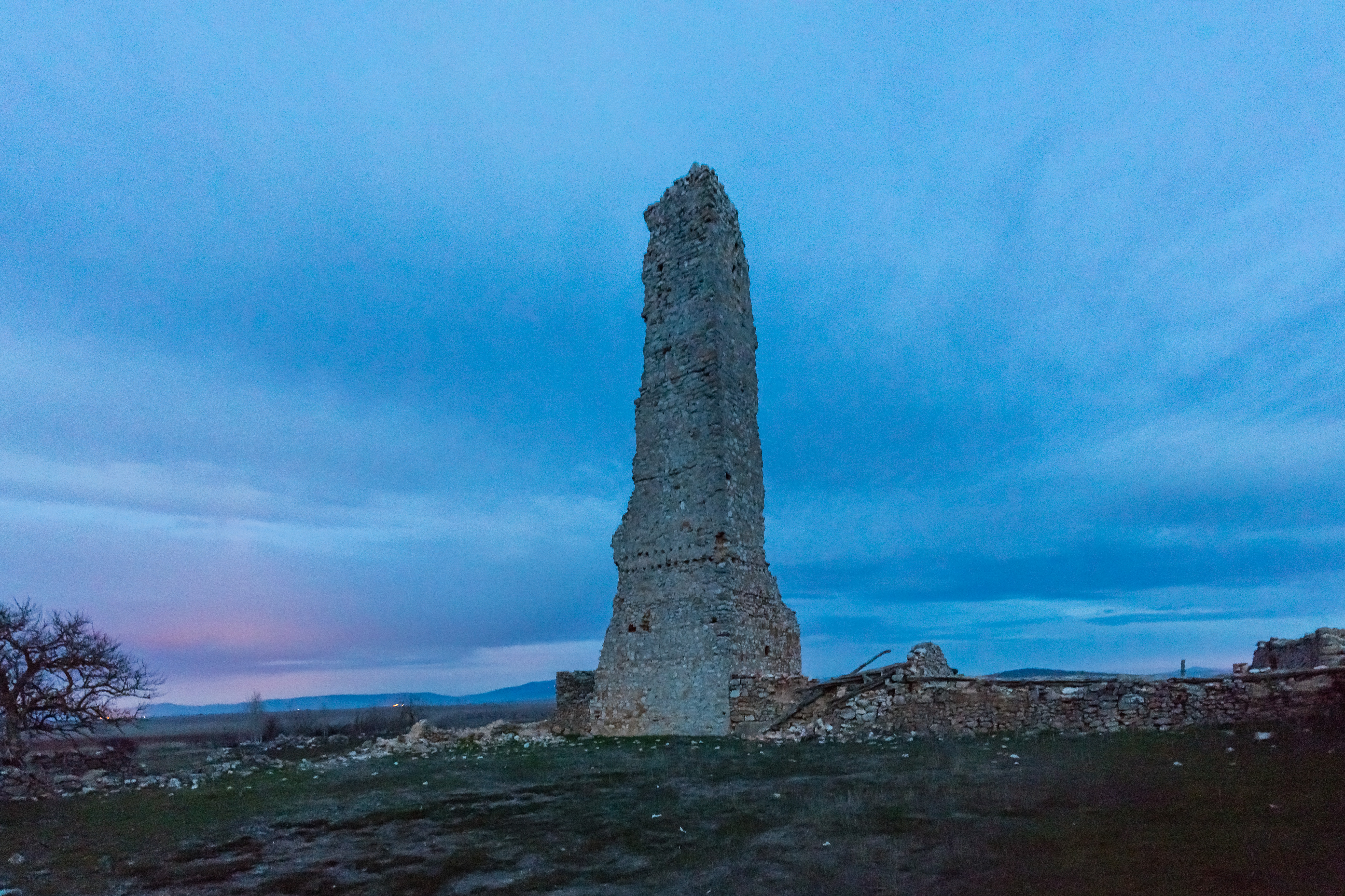 Tower of Tordesalas, Torrubia de Soria, Soria, Spain